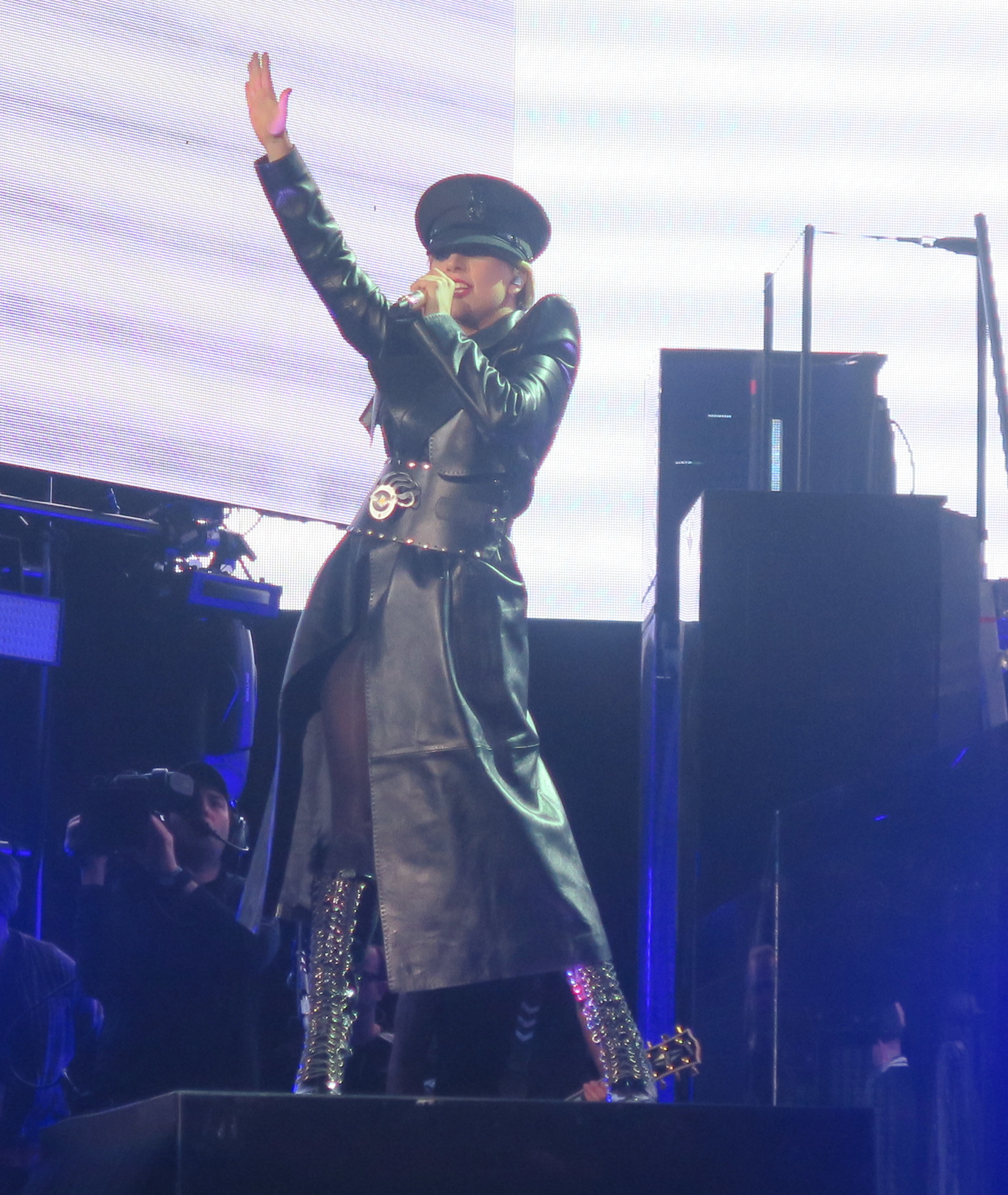 Lady Gaga performing "Scheiße" at Coachella, 2017